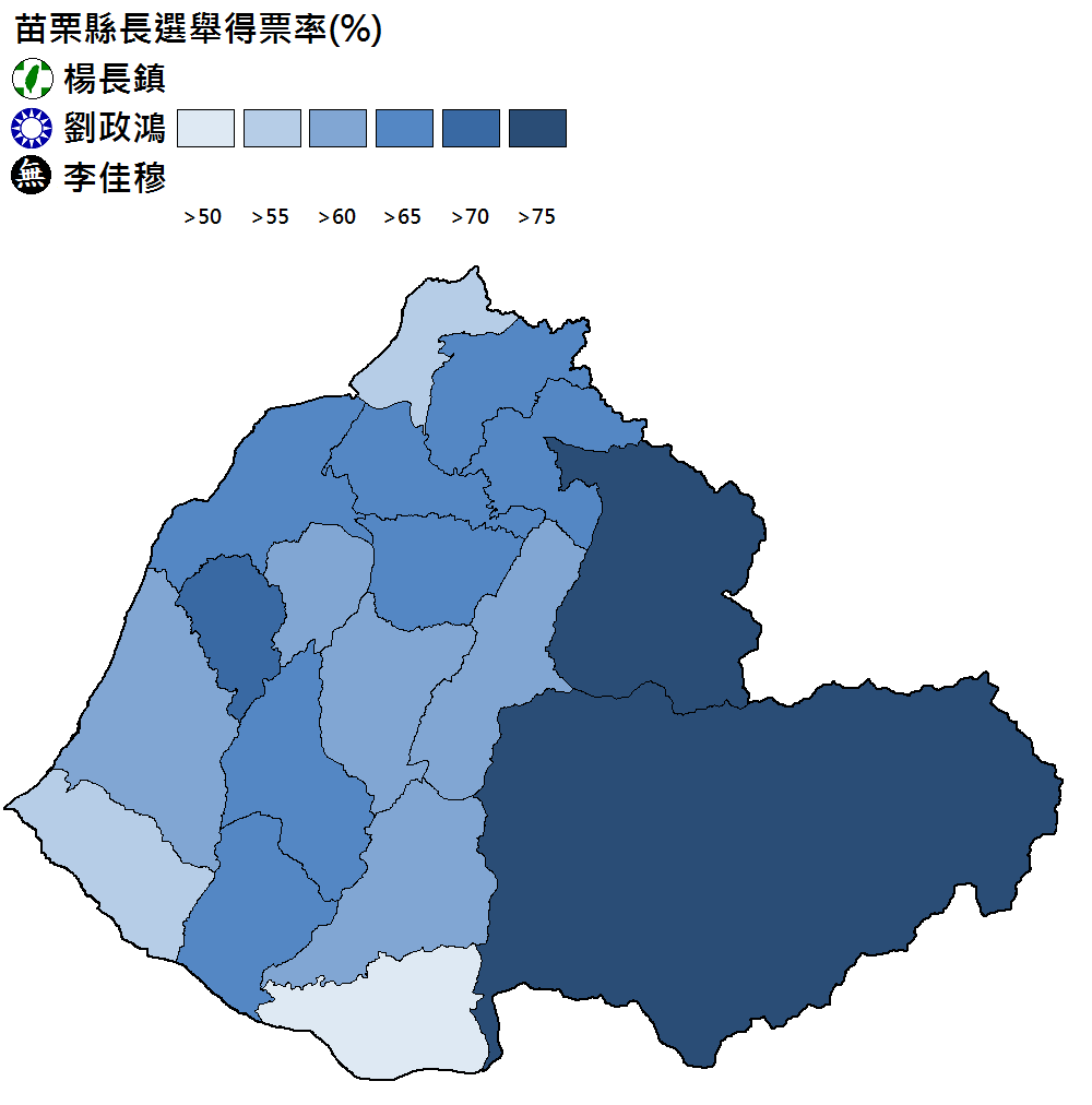 Miaoli magistrate election 2009